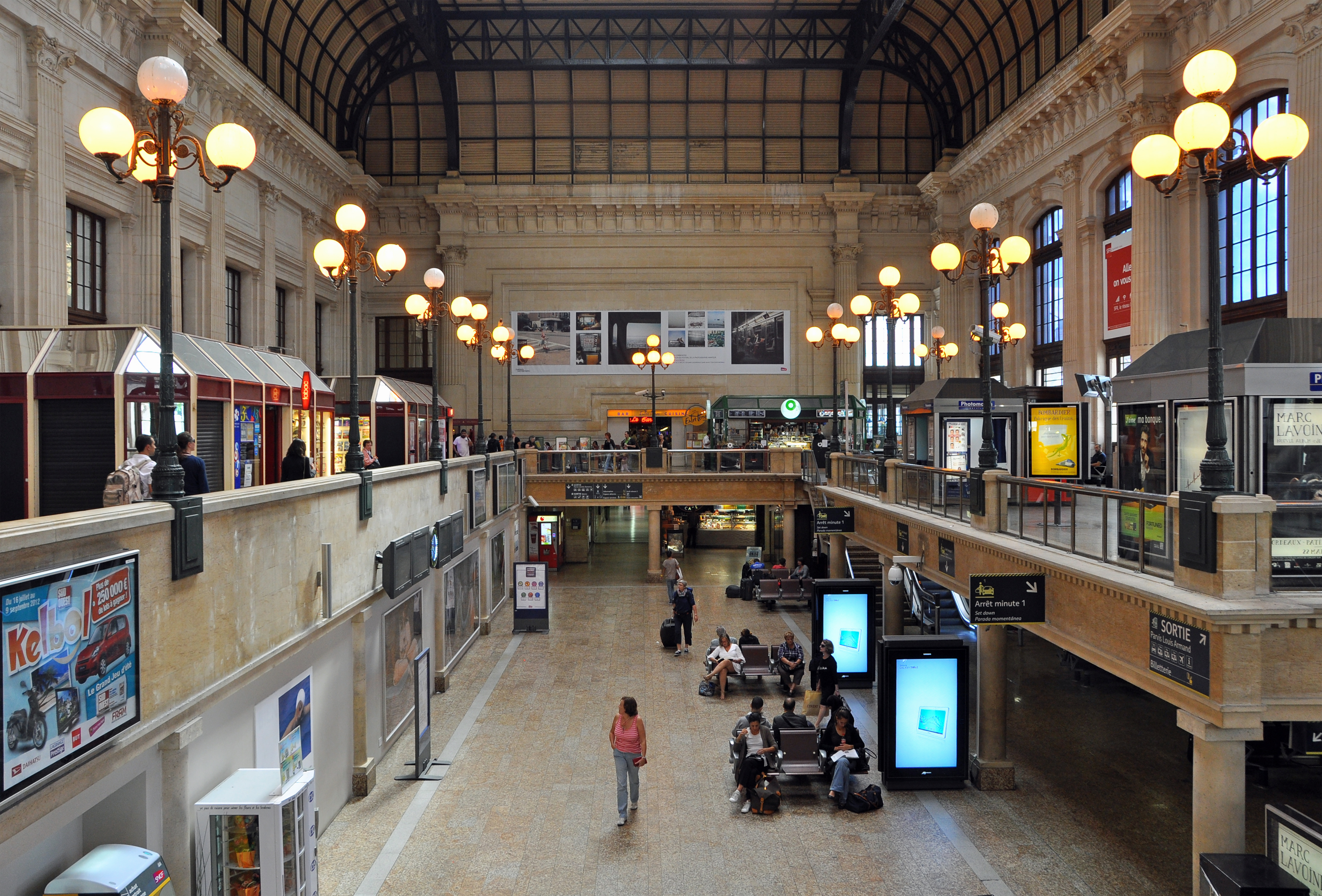 Bordeaux (France): Bordeaux-Saint-Jean train station, inside view